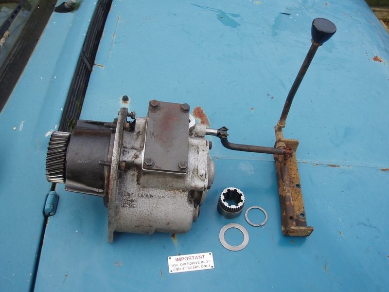 A Fairey overdrive, removed from a 1979 Range Rover.